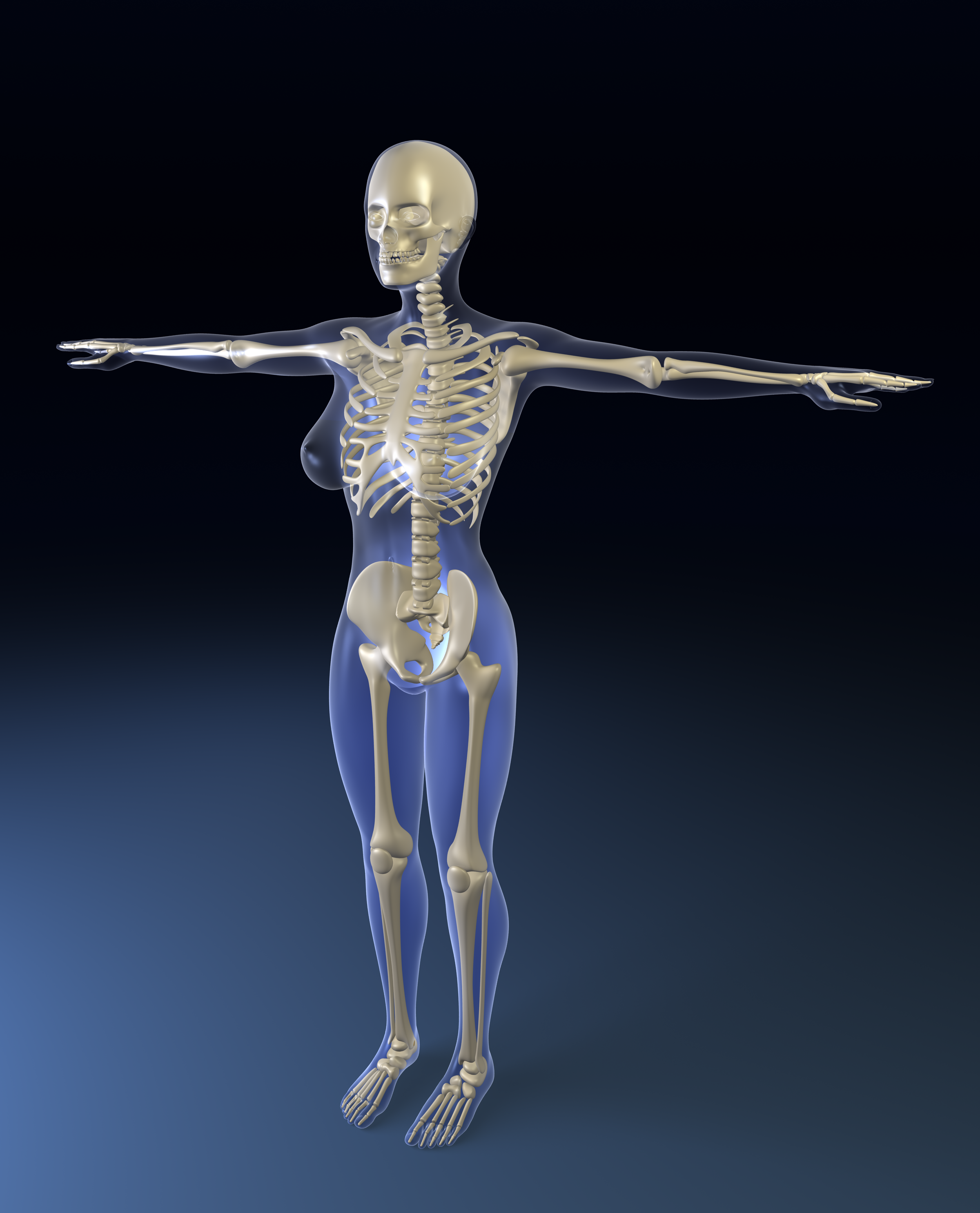 Human Skeleton Model.